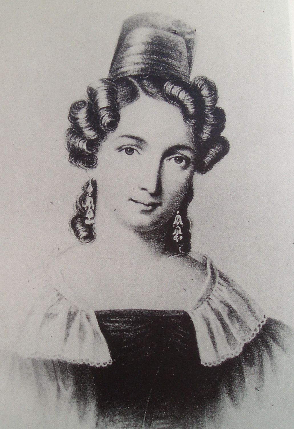 Portrait of German writer Charlotte Stieglitz